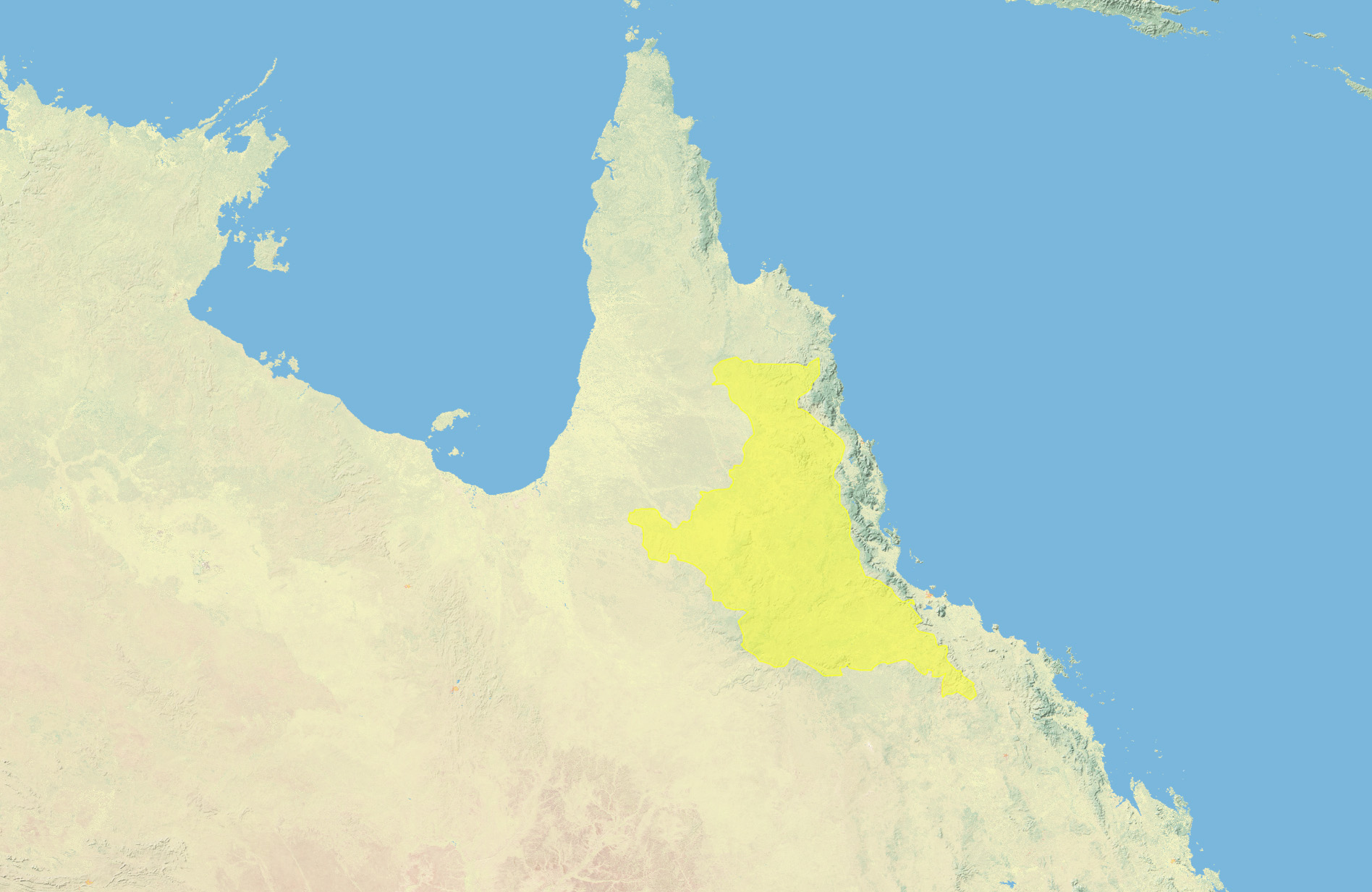 The Einasleigh Upland Savanna ecoregion, defined by the WWF WWF code AA0705